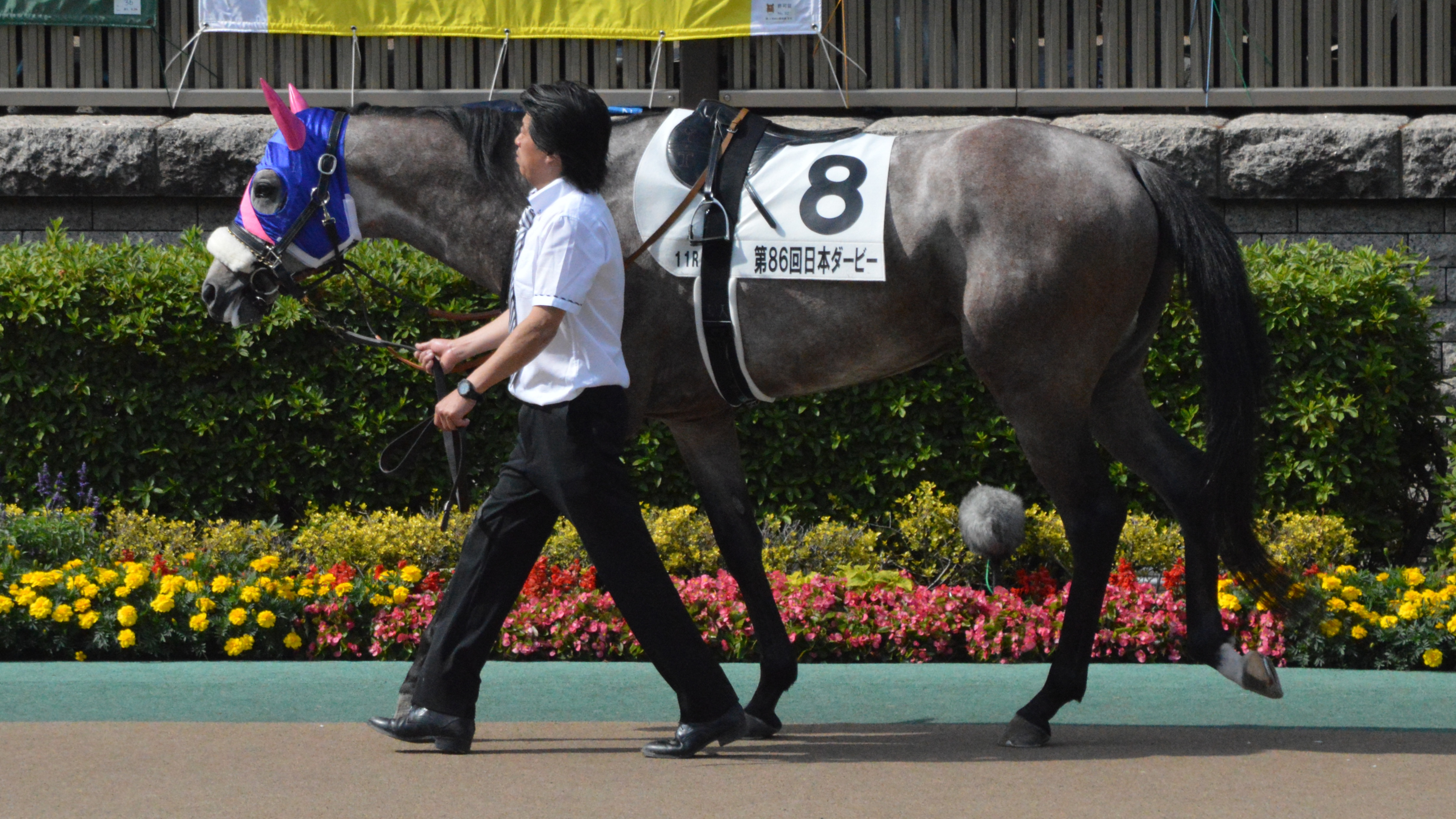 Japanese race horse Meisho Tengen at Tokyo racecourse. Tokyo (JPN) 26 May 2019Tokyo Yushun (Japanese Derby) (Grade 1) (3yo Colts & Fillies) (Turf) 1m4f Firm RankHorse NameOddsAgeWgtJockeyTrainer1stRoger Barows (JPN)92/1C39-0Suguru HamanakaKatsuhiko Sumii10thMeisho Tengen (JPN)79/1C39-0Yutaka TakeKaneo IkezoeOthers are omitted. (18 horses entered in a race.)